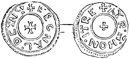 Silver penny of Regnald, King of Northumbria 919-921